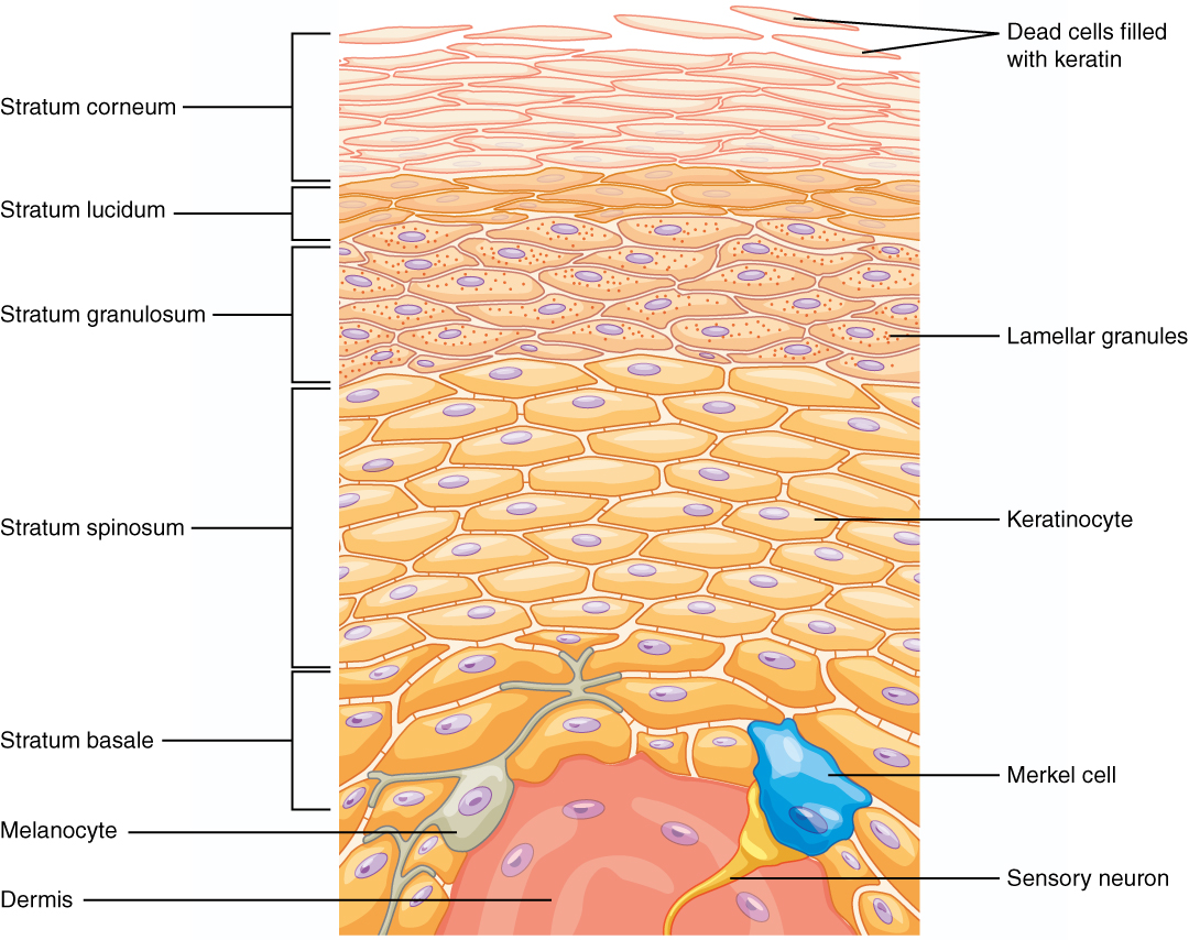 Illustration from Anatomy & Physiology, Connexions Web site. Jun 19, 2013.